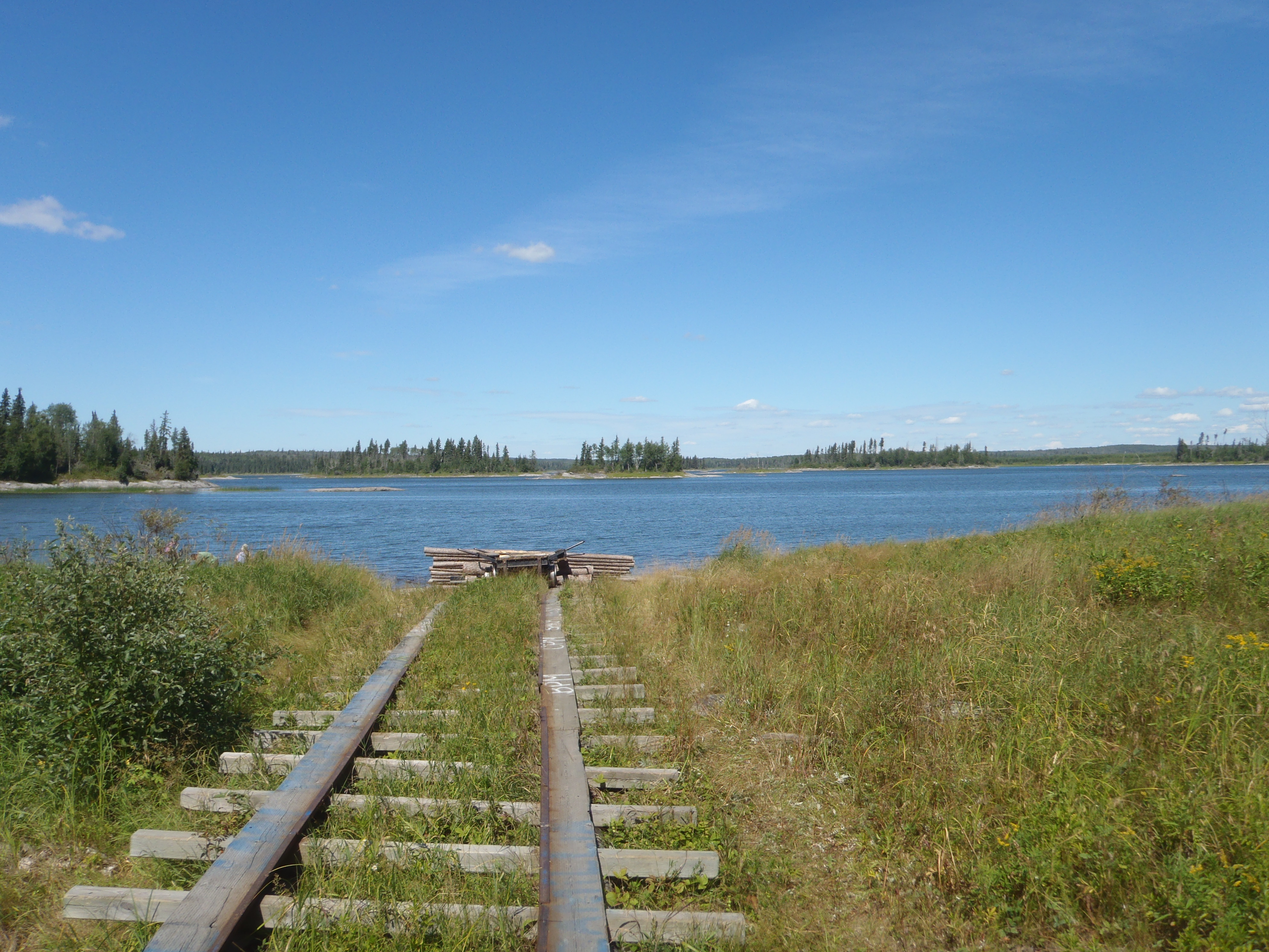 Frog Portage "rail" as taken in August 2015 - with rail car. The Churchill river is in the background